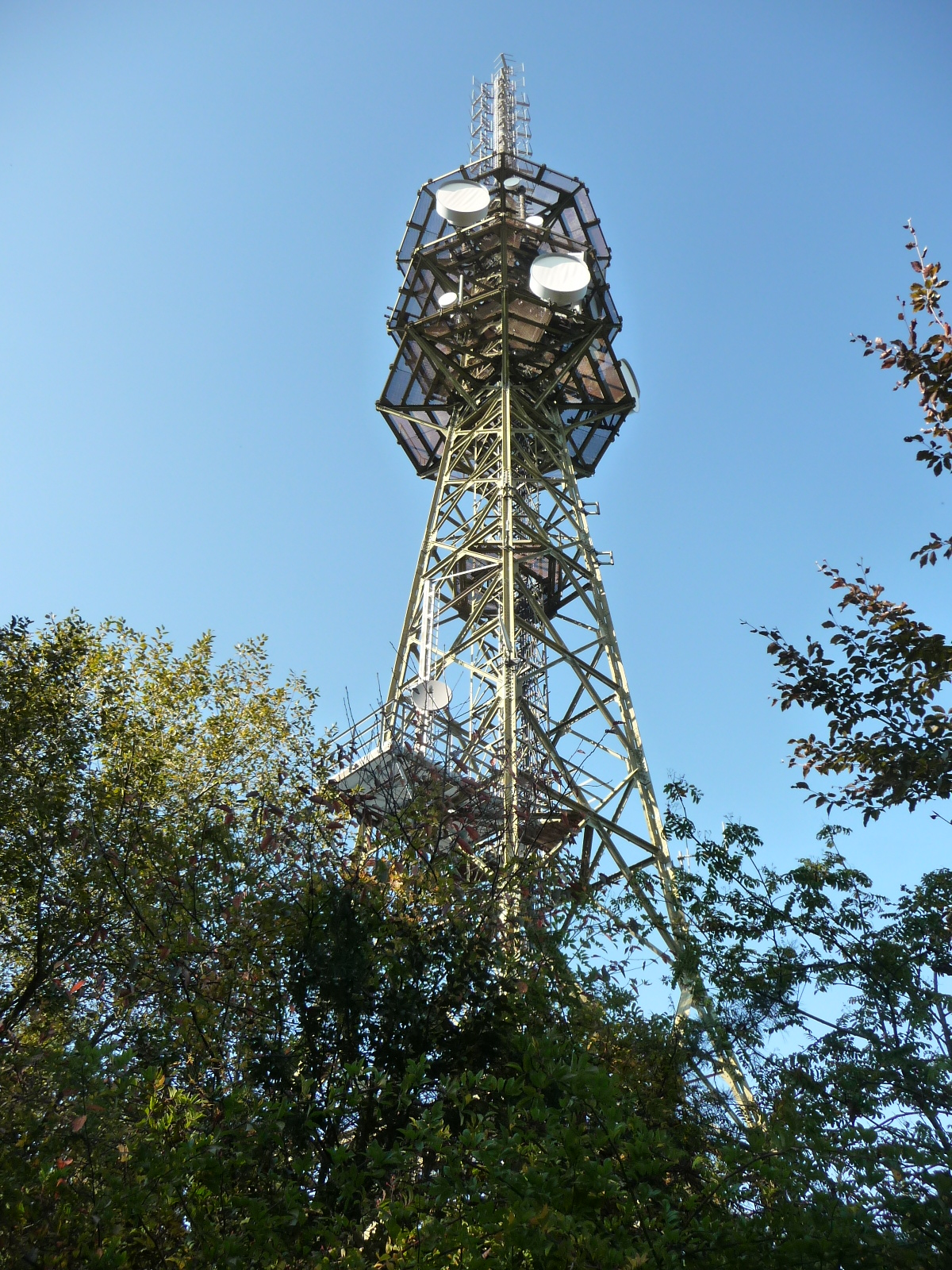 Kalmit